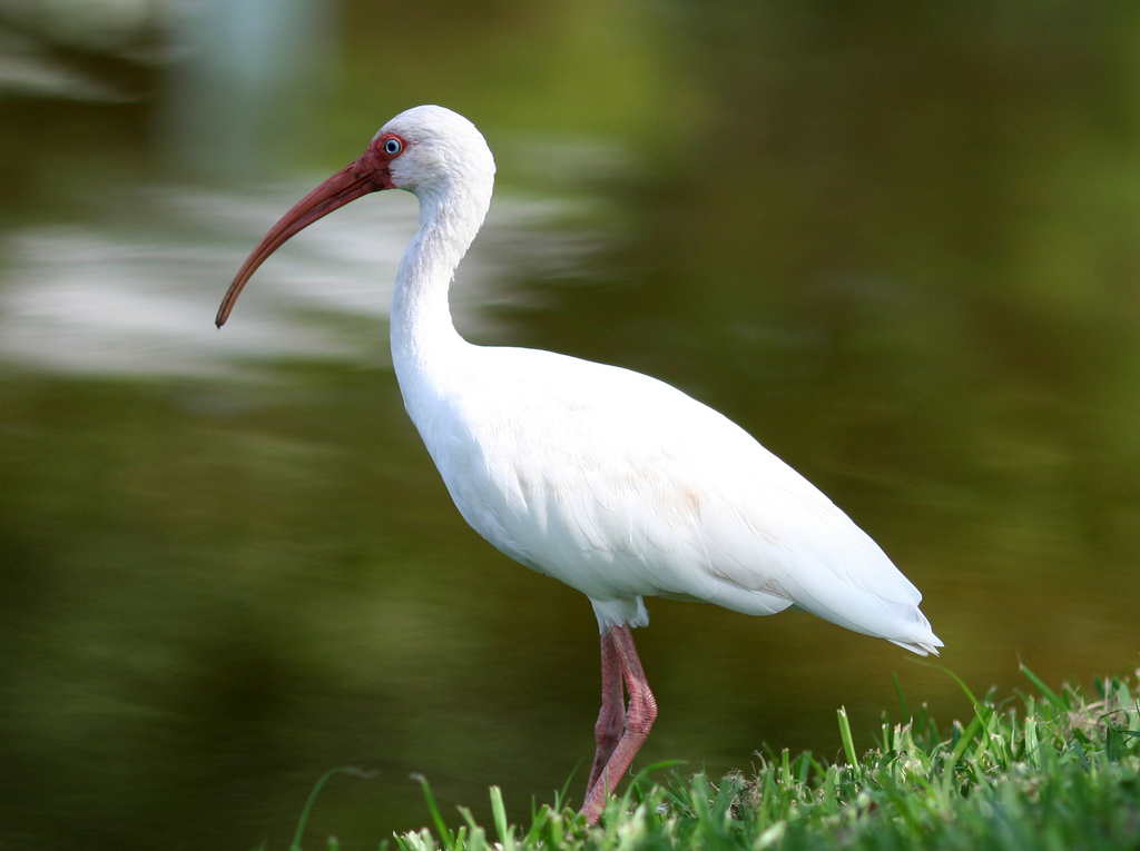 American White Ibis in Florida, USA.